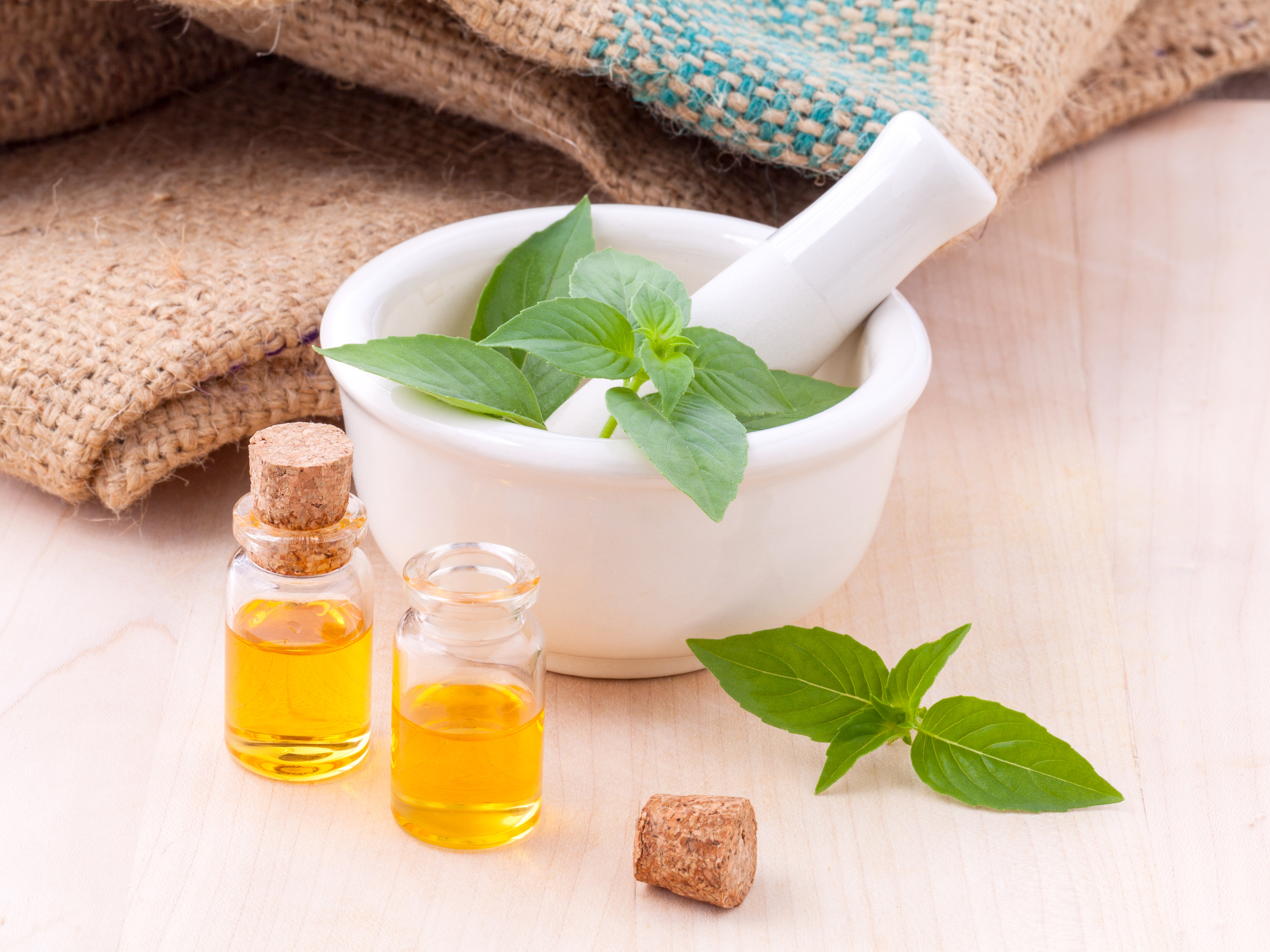 Mortar and medicinal herbs